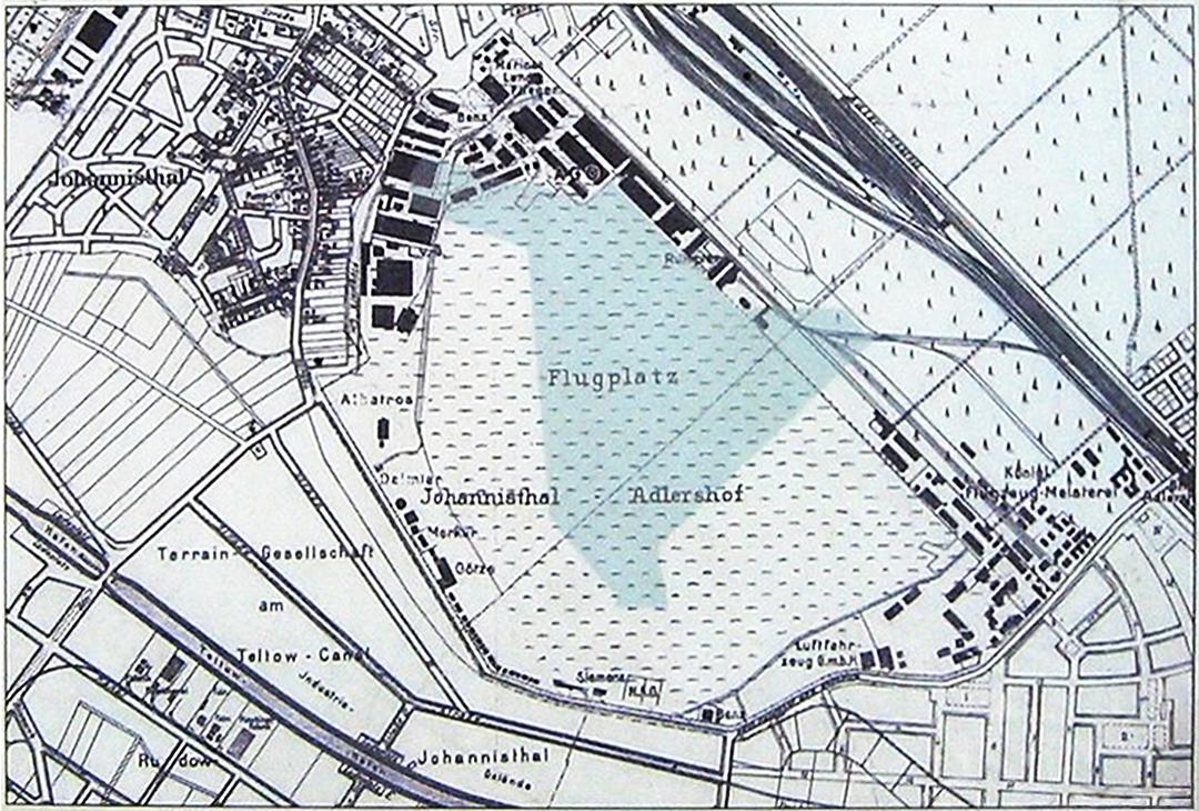 Map of the former Johannisthal Air Field ("Flugplatz Johannisthal") in Berlin in 1913; the area of today's "Johannisthal/Adlershof" landscape park is coloured